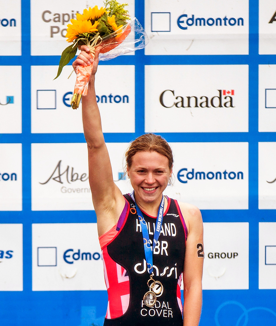 Vicky Holland World Triathlon Series Tour 2015 - Edmonton